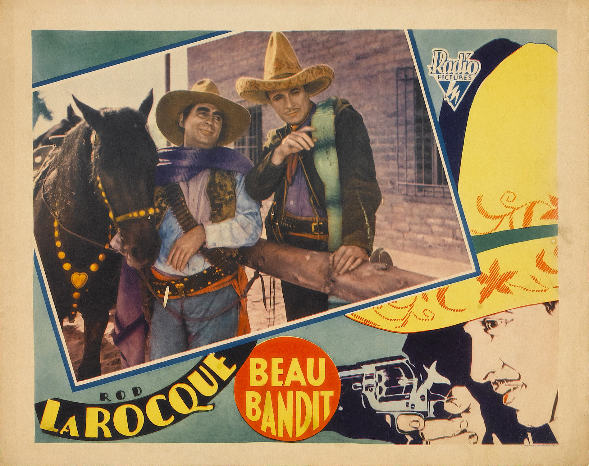 Lobby card for the American western film Beau Bandit (1930).